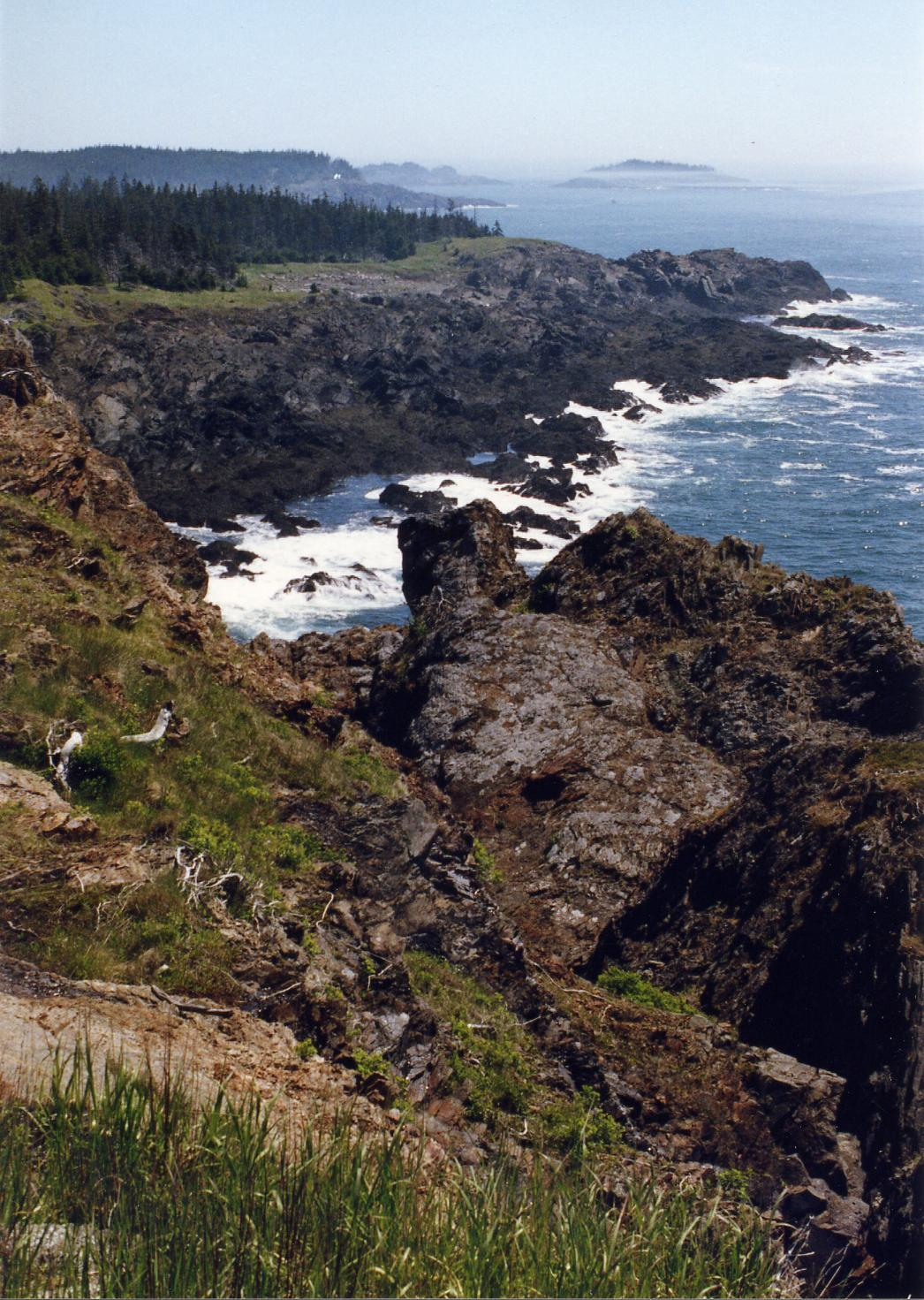 Cross Island rugged shoreline at Maine Coastal Island National Wildlife Refuge credit: USFWS